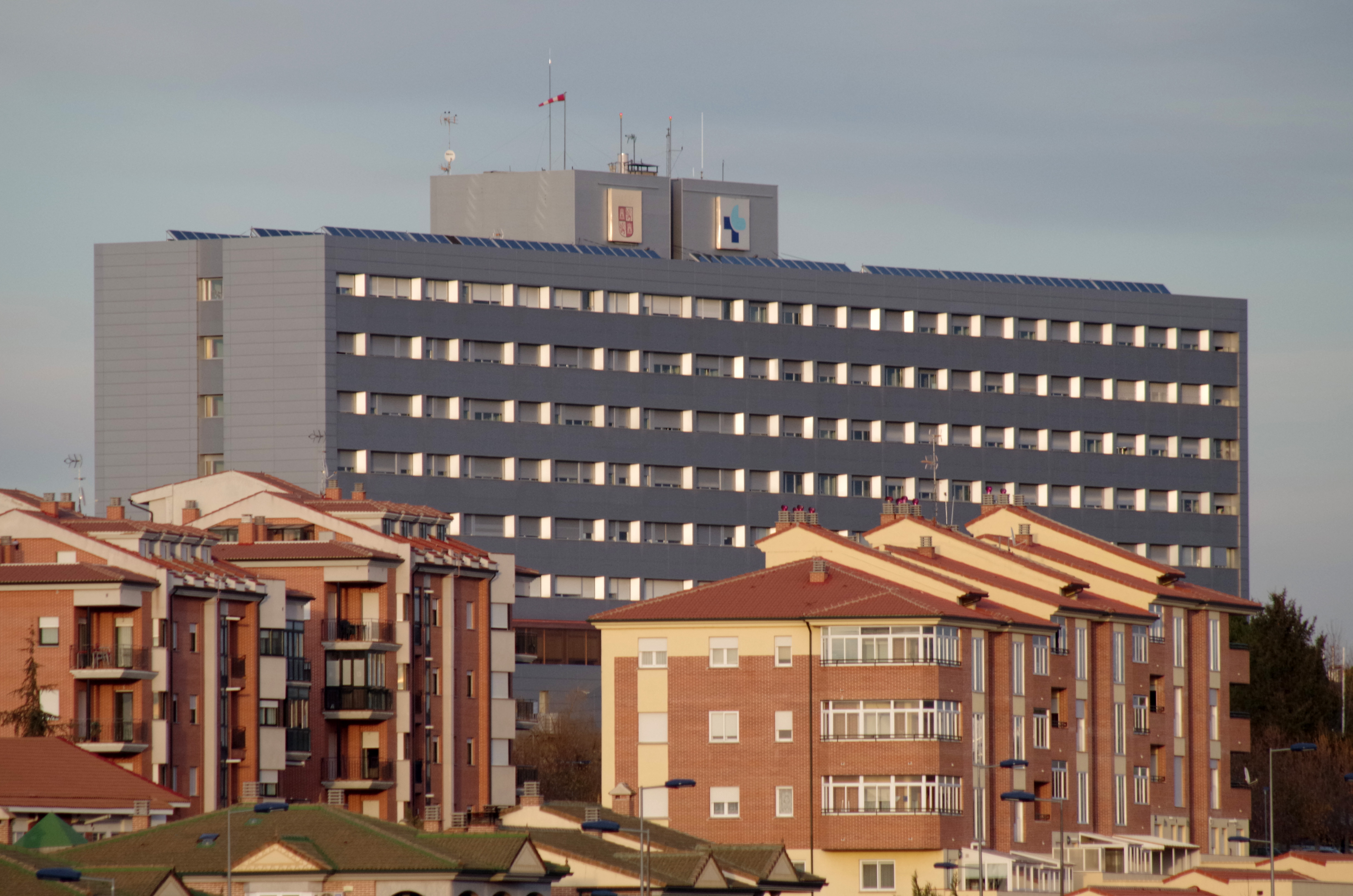 Building of Nuestra Señora de Sonsoles Hospital in Ávila (Ávila, España).